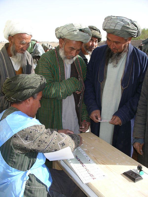 October 9, 2004, Sheberghan, Afghanistan: Afghan men reviewing ballot in the first-ever election for a head of state.